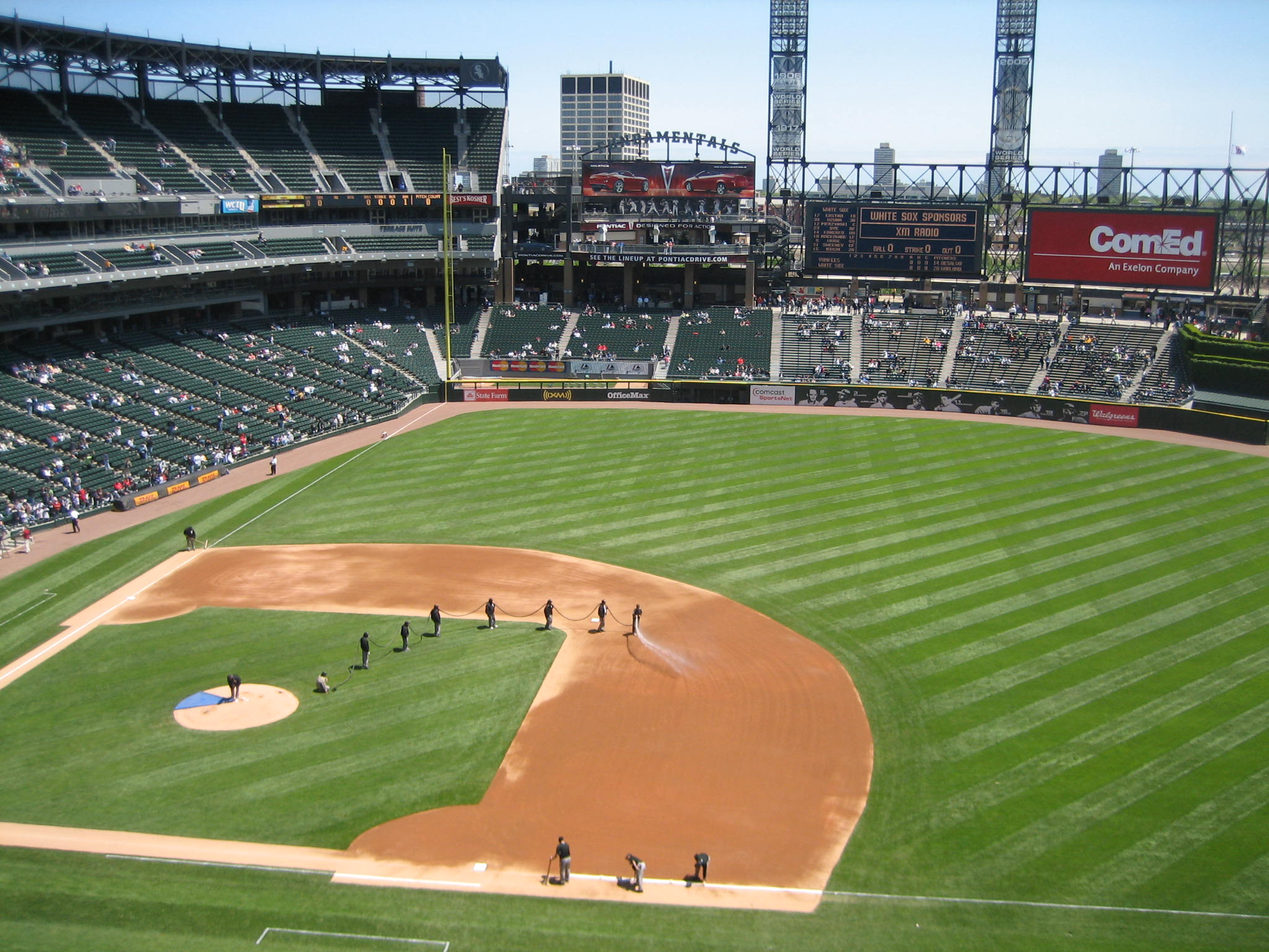 U.S. Cellular Field, grounds crew preparing the field. Chicago Illinois.